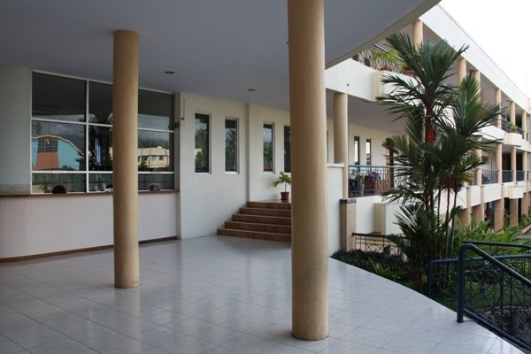 This photo shows a preview of the inside of Manado International School